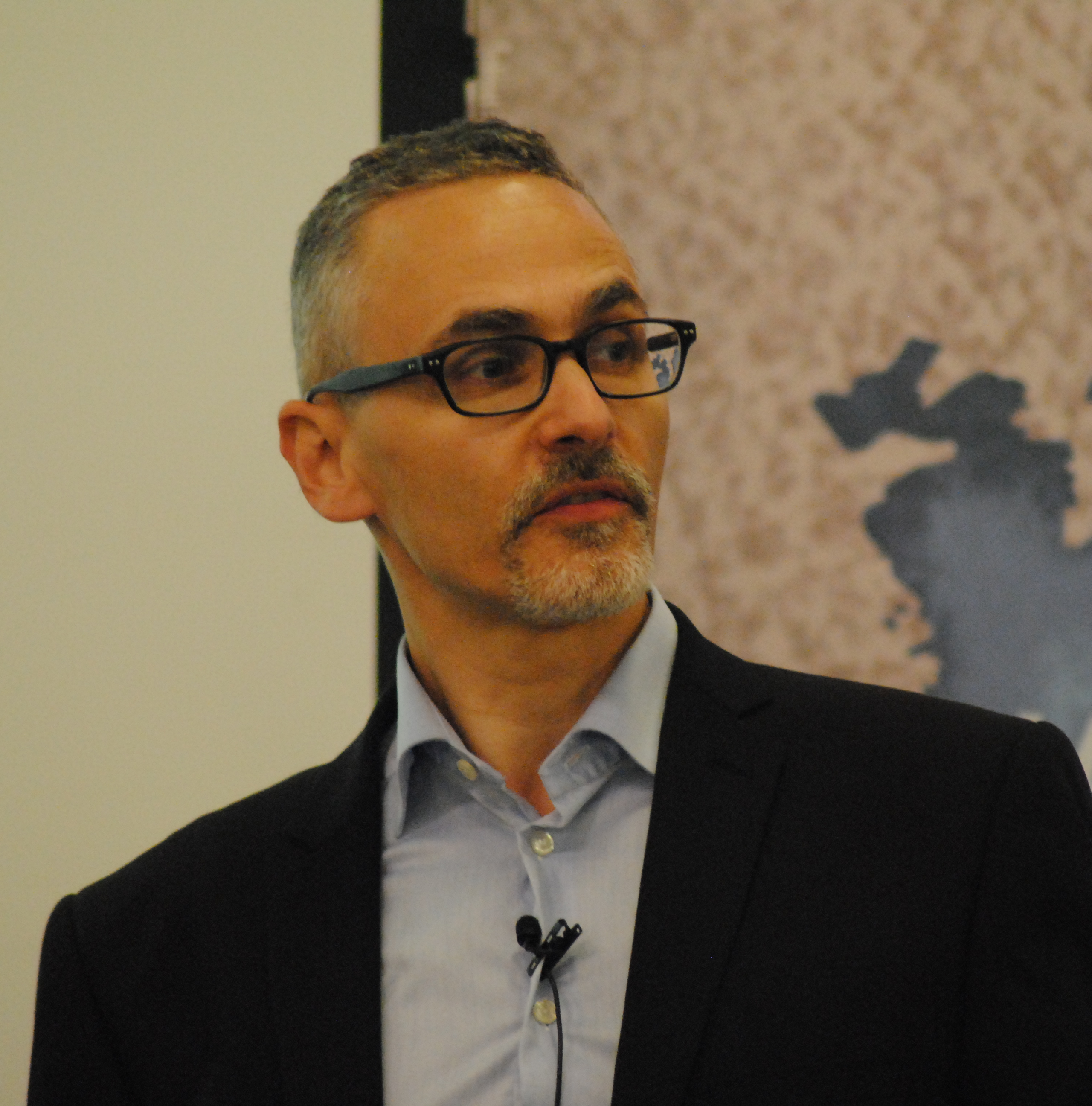 Nudge: The Future for Policy?, 26 June 2014, cht.hm/1nPxuKa